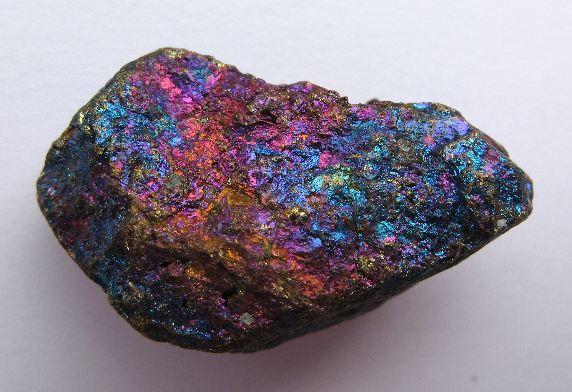 Chalcopyrite